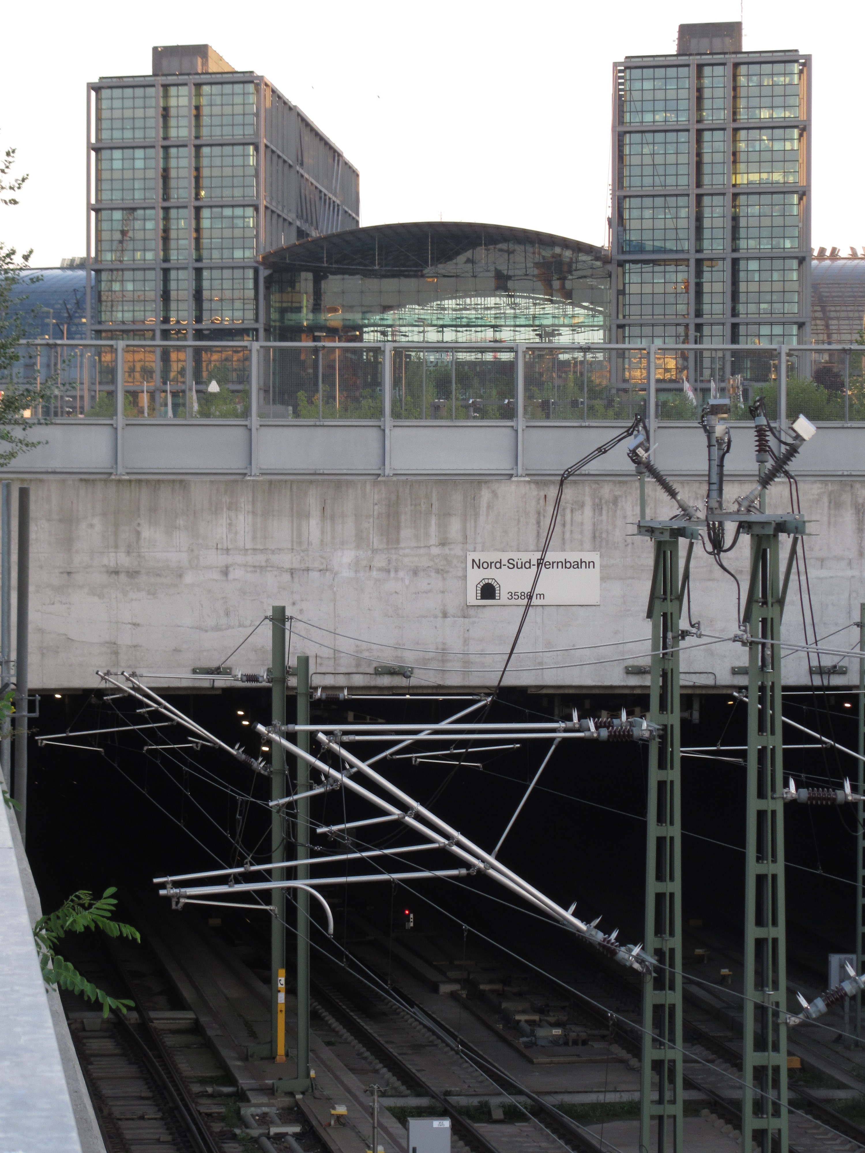 Berlin central station and the northern mound of the north-south railway tunnel serving the station